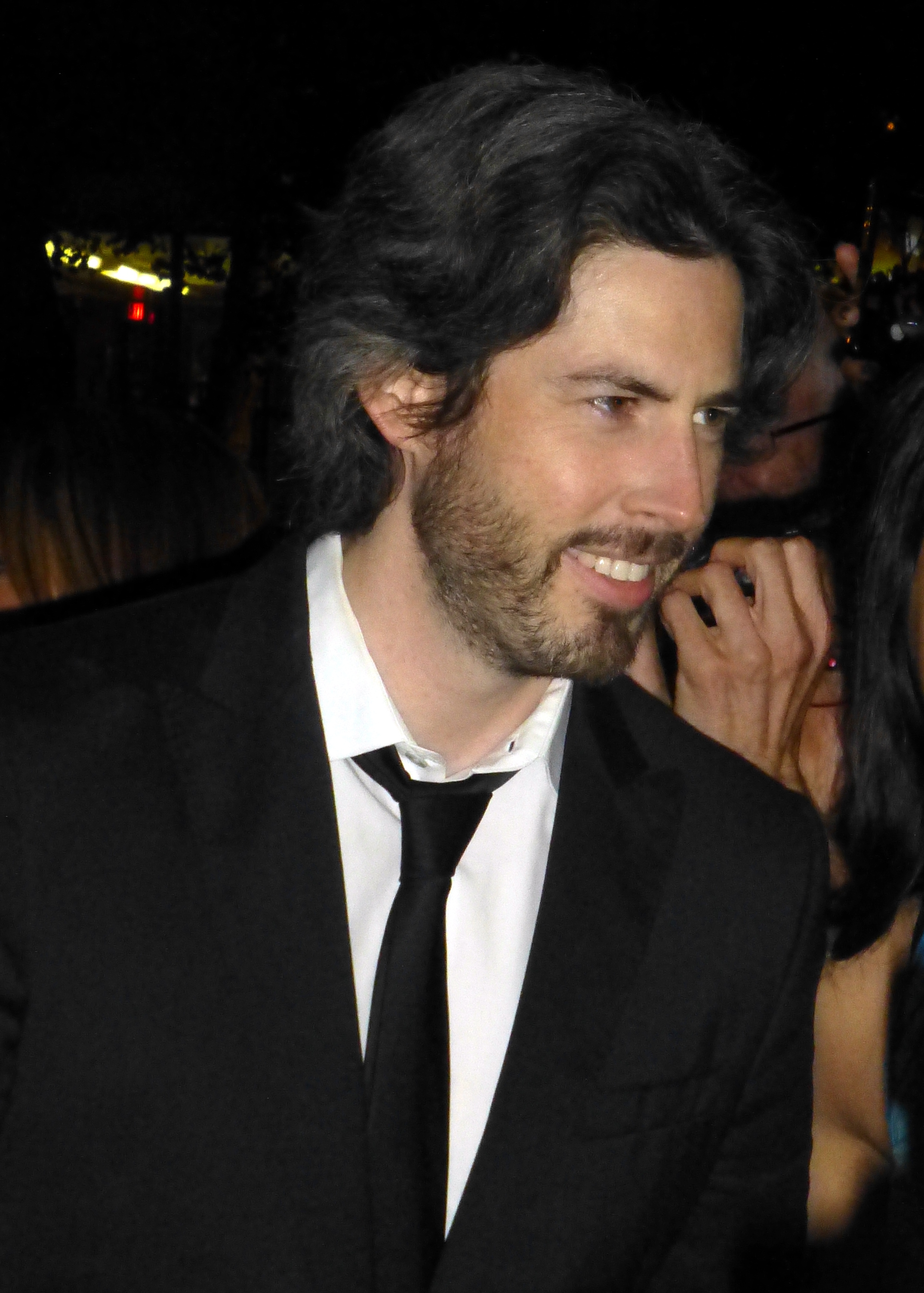 Jason Reitman at the premiere of Men, Women, and Children, 2014 Toronto Film Festival